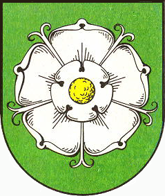 Coat of Arms of Vierraden: On green background a silver rose with golden seeds.